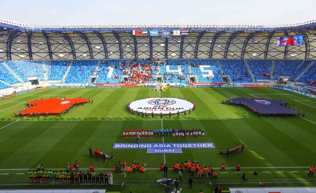 Thailand & Bahrain Group A match, 2019 AFC Asian Cup